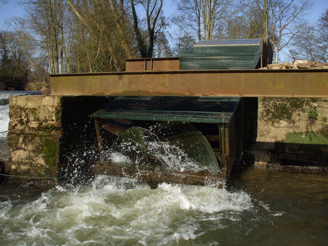 Archimedean Screw Turbine at Howsham Mill As part of the restoration of Howsham Mill, the project has looked to green energy, and with a river right next door, has put in an archimedian screw which converts the rivers energy into hydro power. More information can be found out about this project at: or go and visit Howsham Mill and talk to the volunteers.